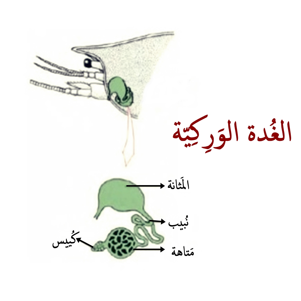 components of coxal gland